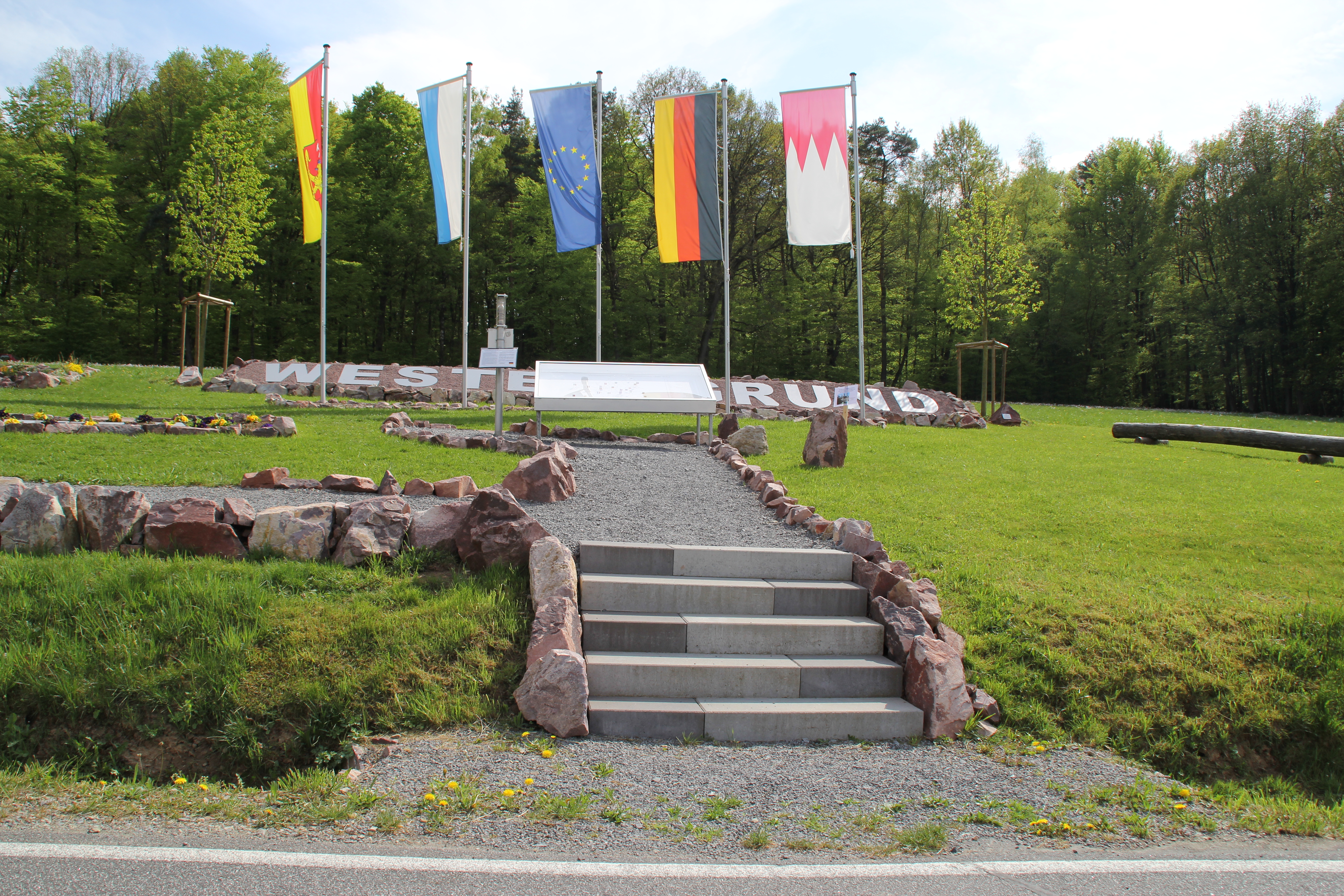 The geographical centre of the European Union near Westerngrund, Bavaria